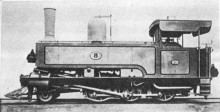 NGR Class G no. 8 (2-6-0T) as built, later rebuilt to 4-6-0T